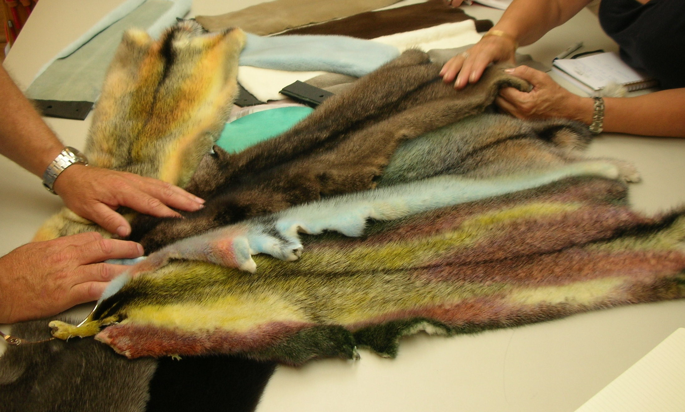 Dyed blackcross mink pelts in the creative-centre Kopenhagen Studio of the auction house Kopenhagen Fur.